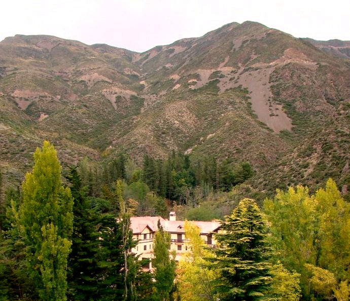 Gran Hotel Villavicencio, Mendoza, Argentina